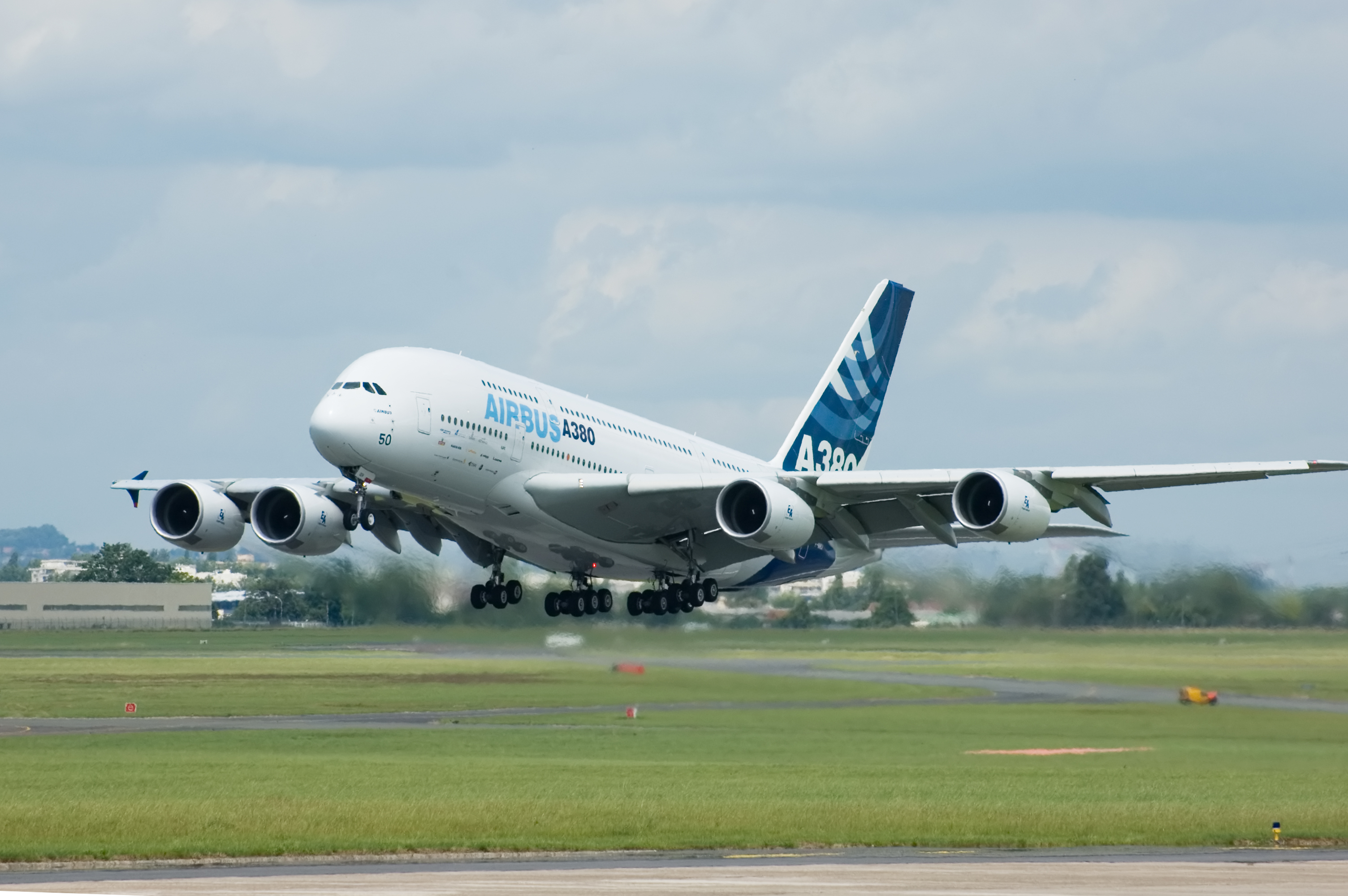 Airbus A380 taking off during Paris Air Show 2007